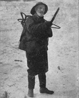 Eldred Nathaniel Woodcock with bear traps of his own making